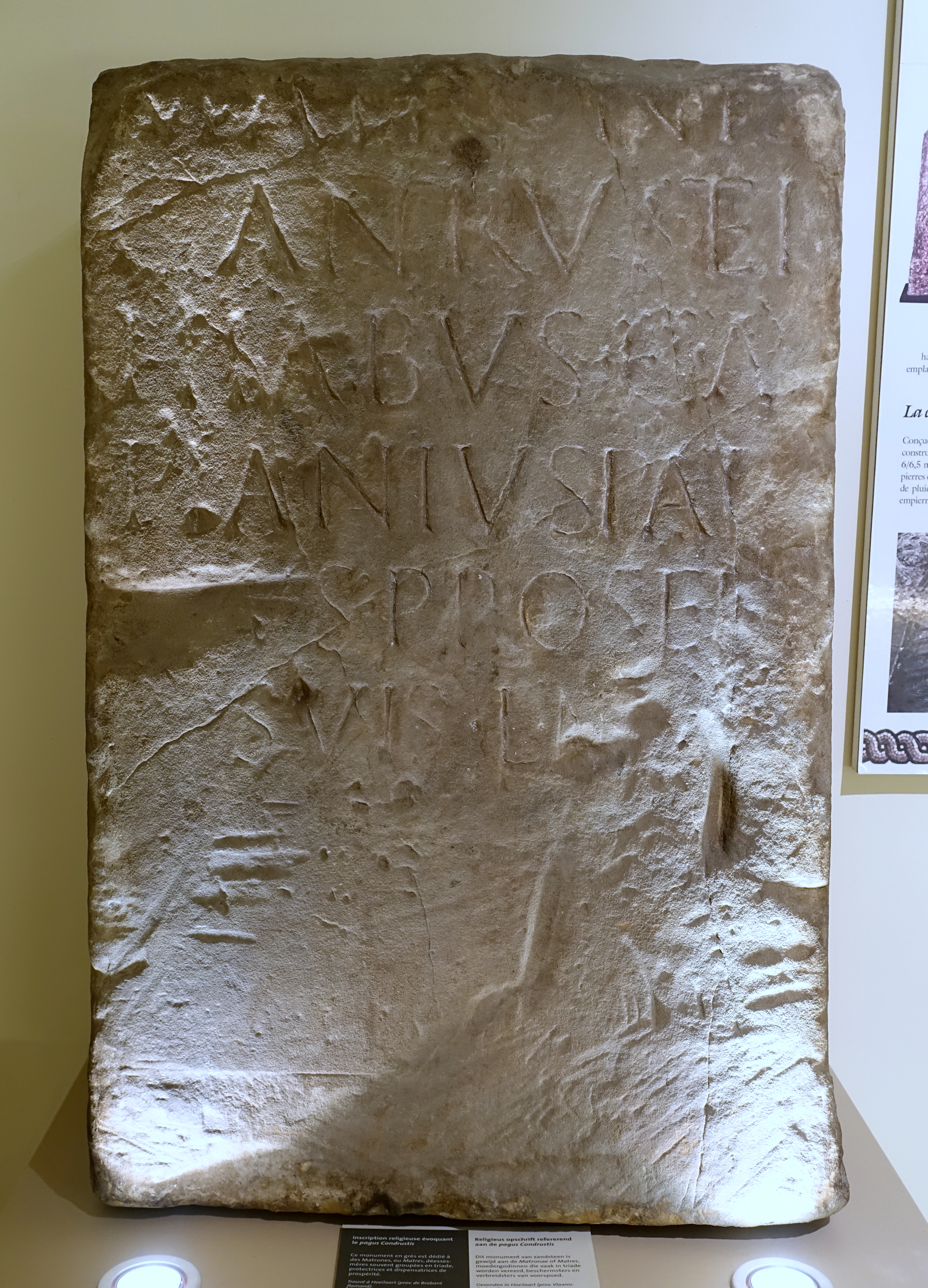 Exhibit in the Cinquantenaire Museum - Brussels, Belgium.